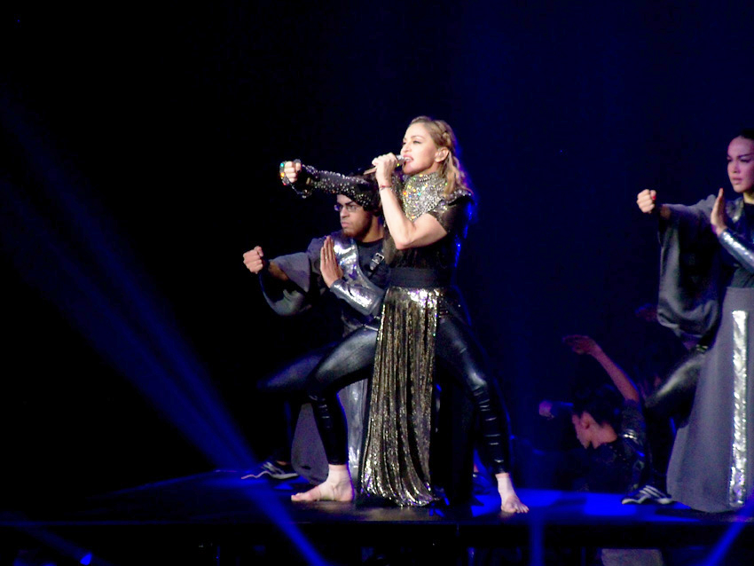 Madonna's MDNA Tour at Staples Center